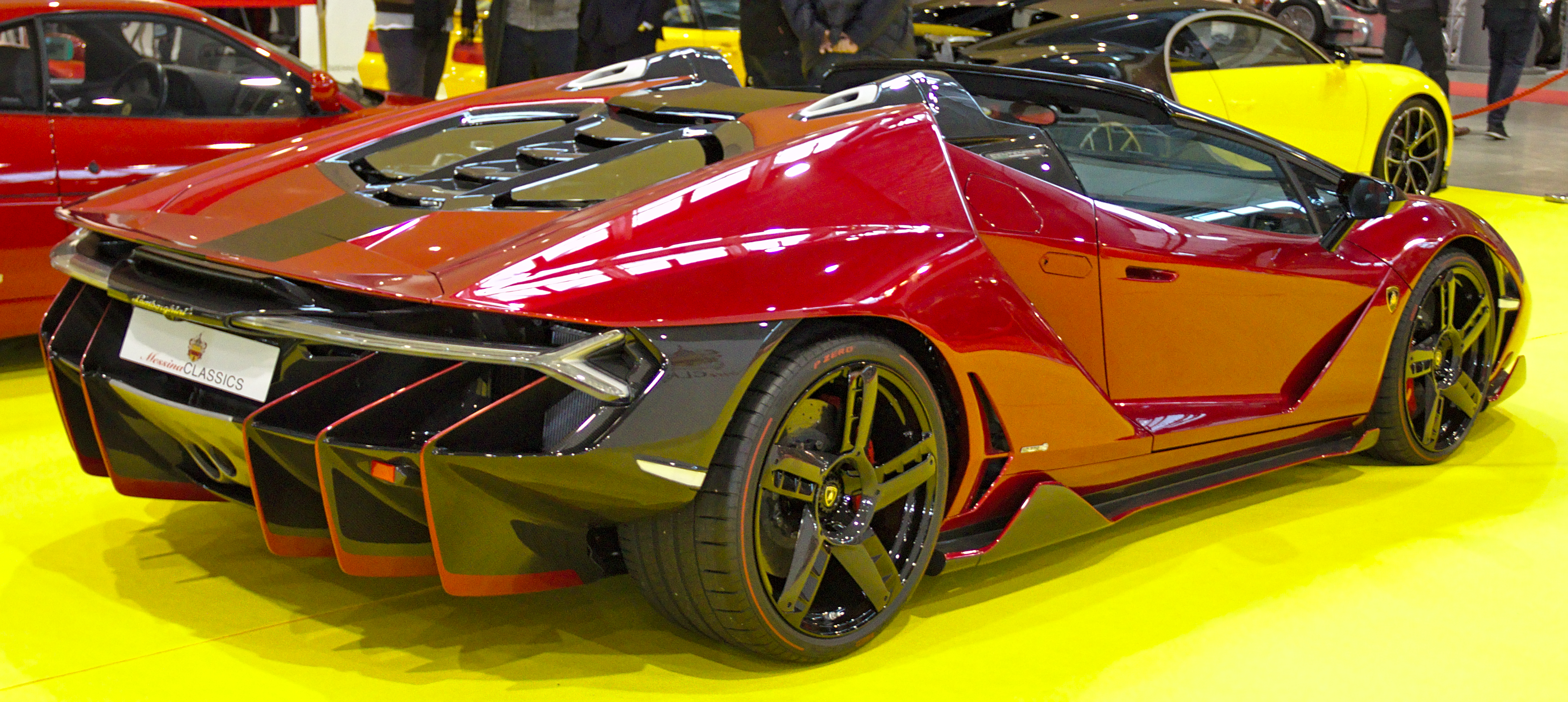 Lamborghini_Centenario_Roadster at Retro Classics 2020